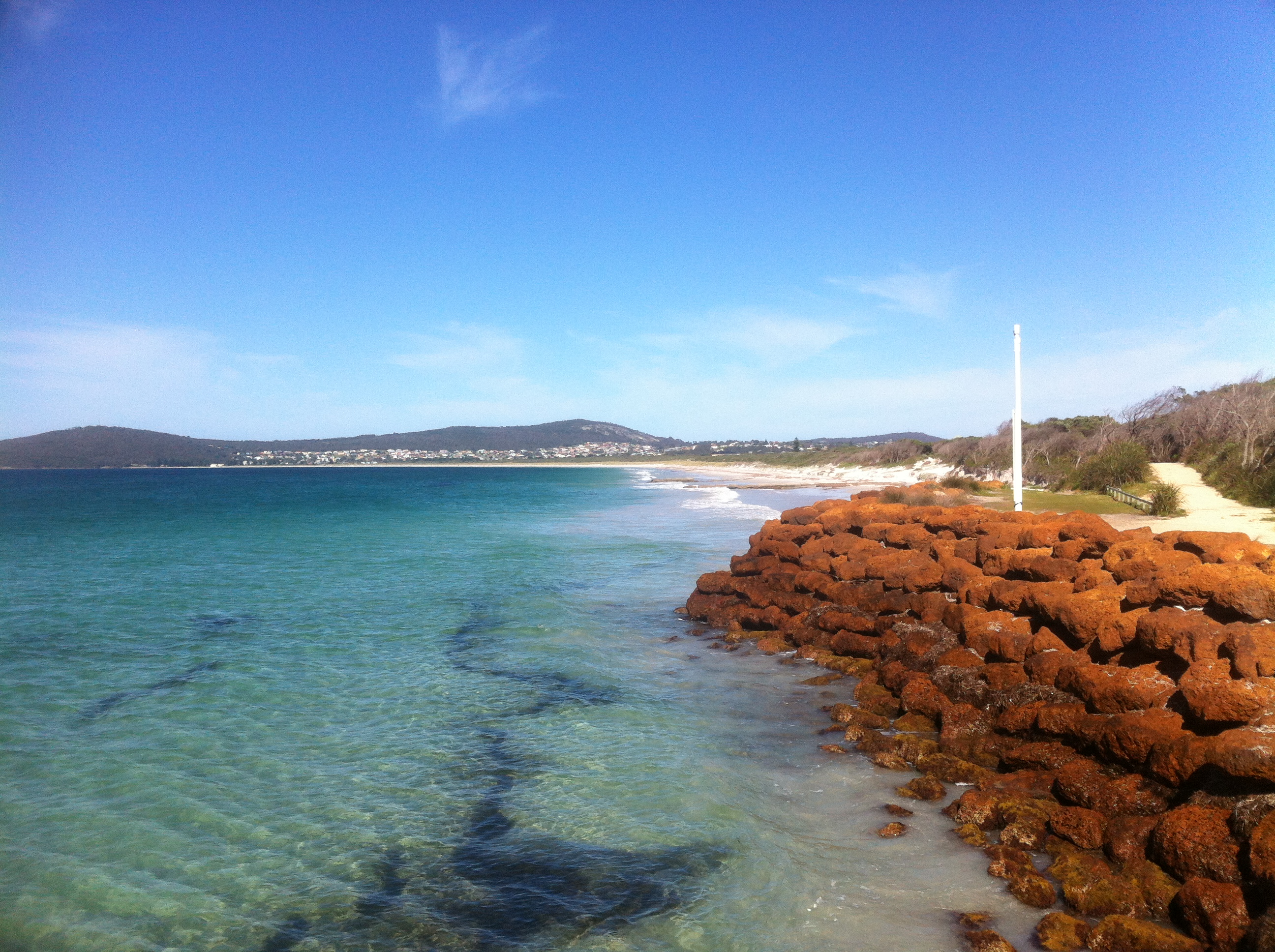 Middleton beach from emu point, with mt adelaide and mt clarence